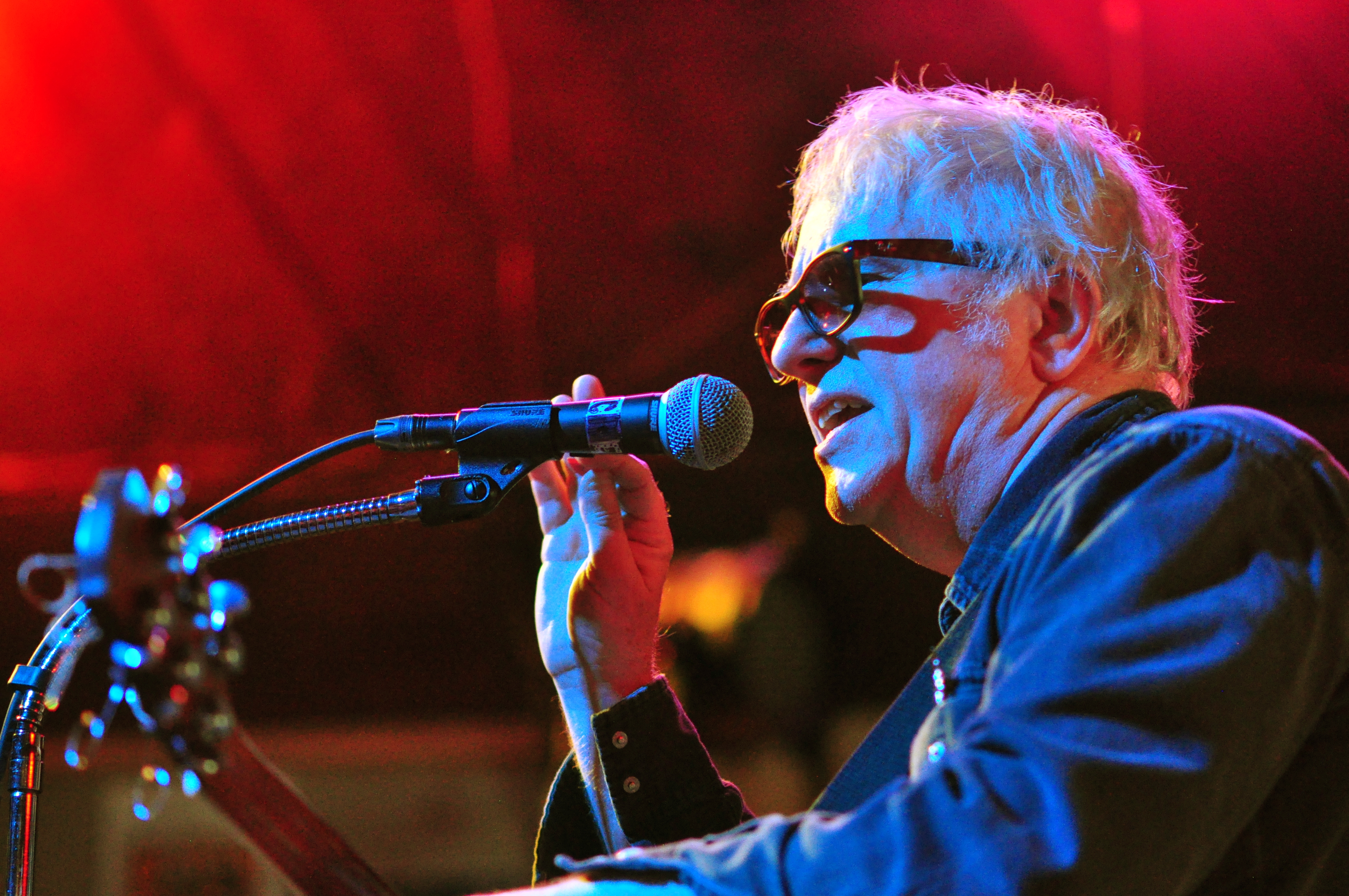 Wreckless Eric performing at the Parliament Tavern, West Seattle, Seattle, Washington, U.S.